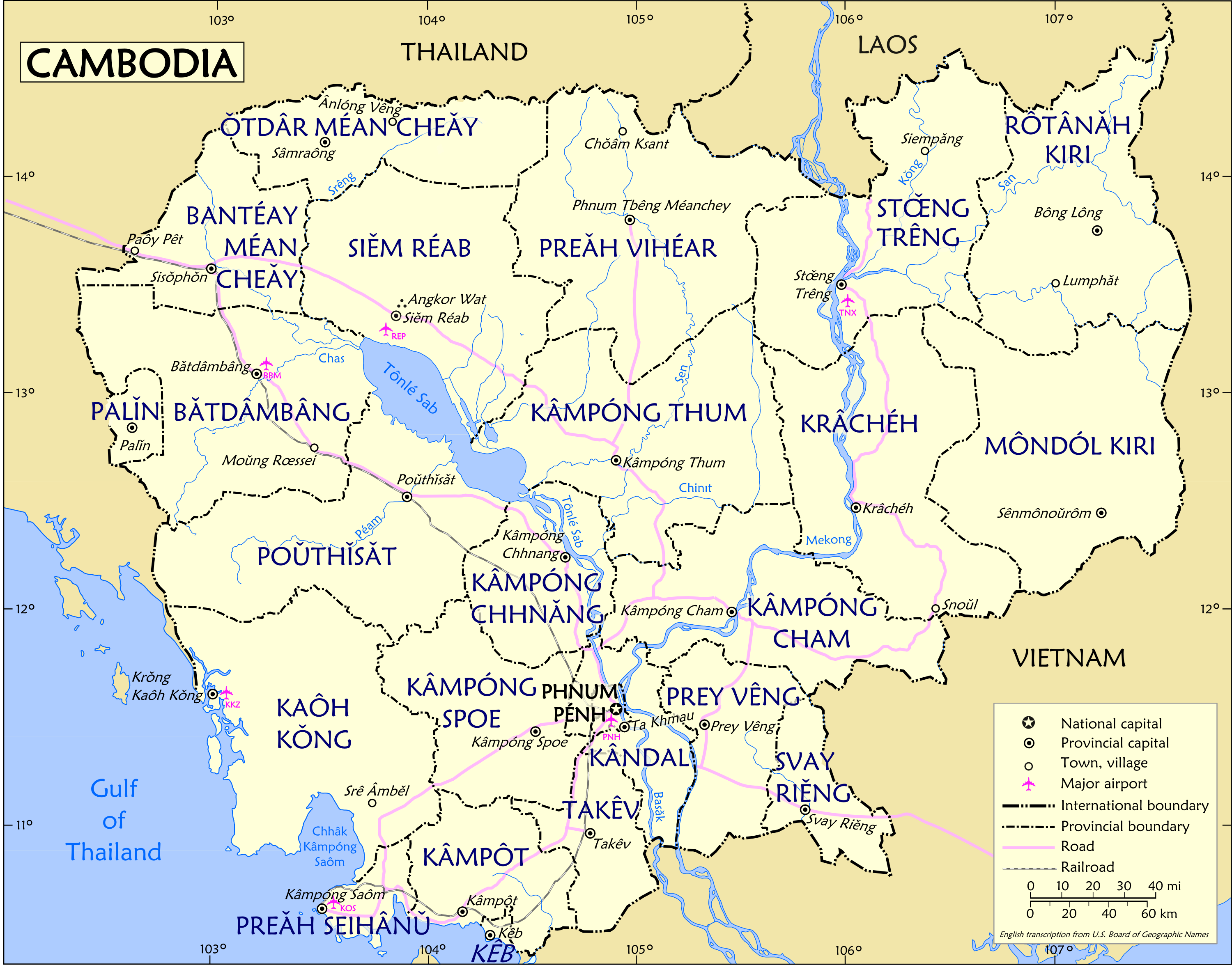 Map of Cambodia with BGN standard names